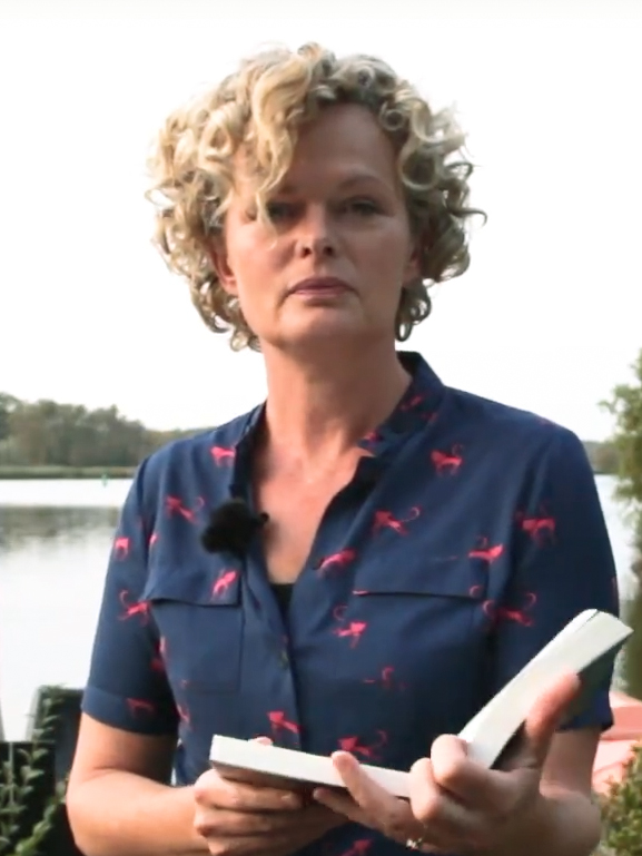 Anne-Gine Goemans (2017)